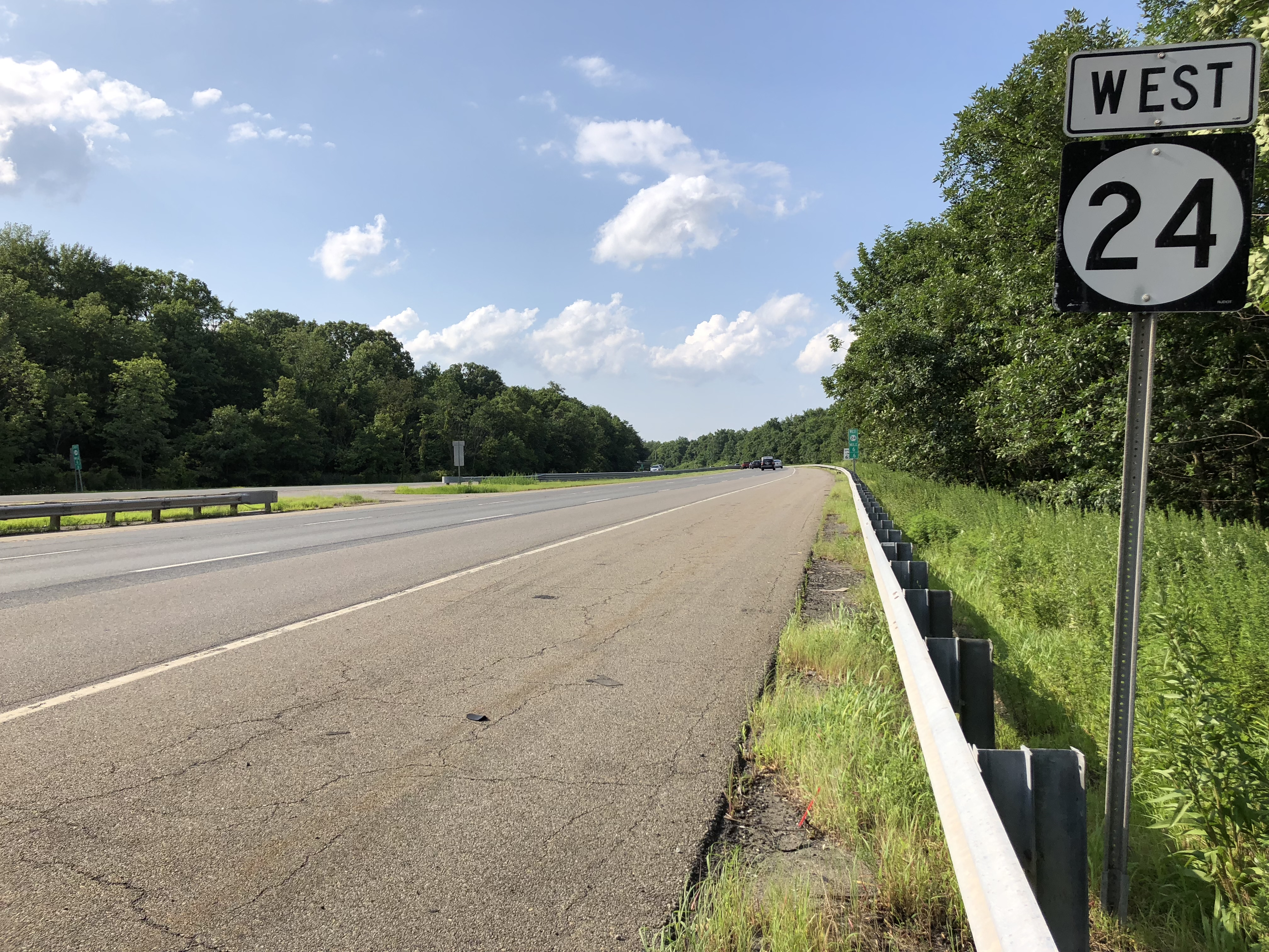 View west along New Jersey State Route 24 between Exit 7 and Exit 2 in Chatham, Morris County, New Jersey